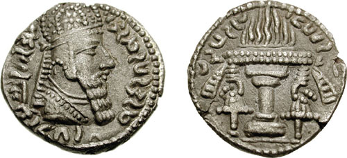 Coin of Ardashir I, Sasanian king (224–240)